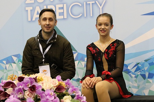 Alexandra Hagarová and Miroslav Bokor - 2017 World Junior Championships